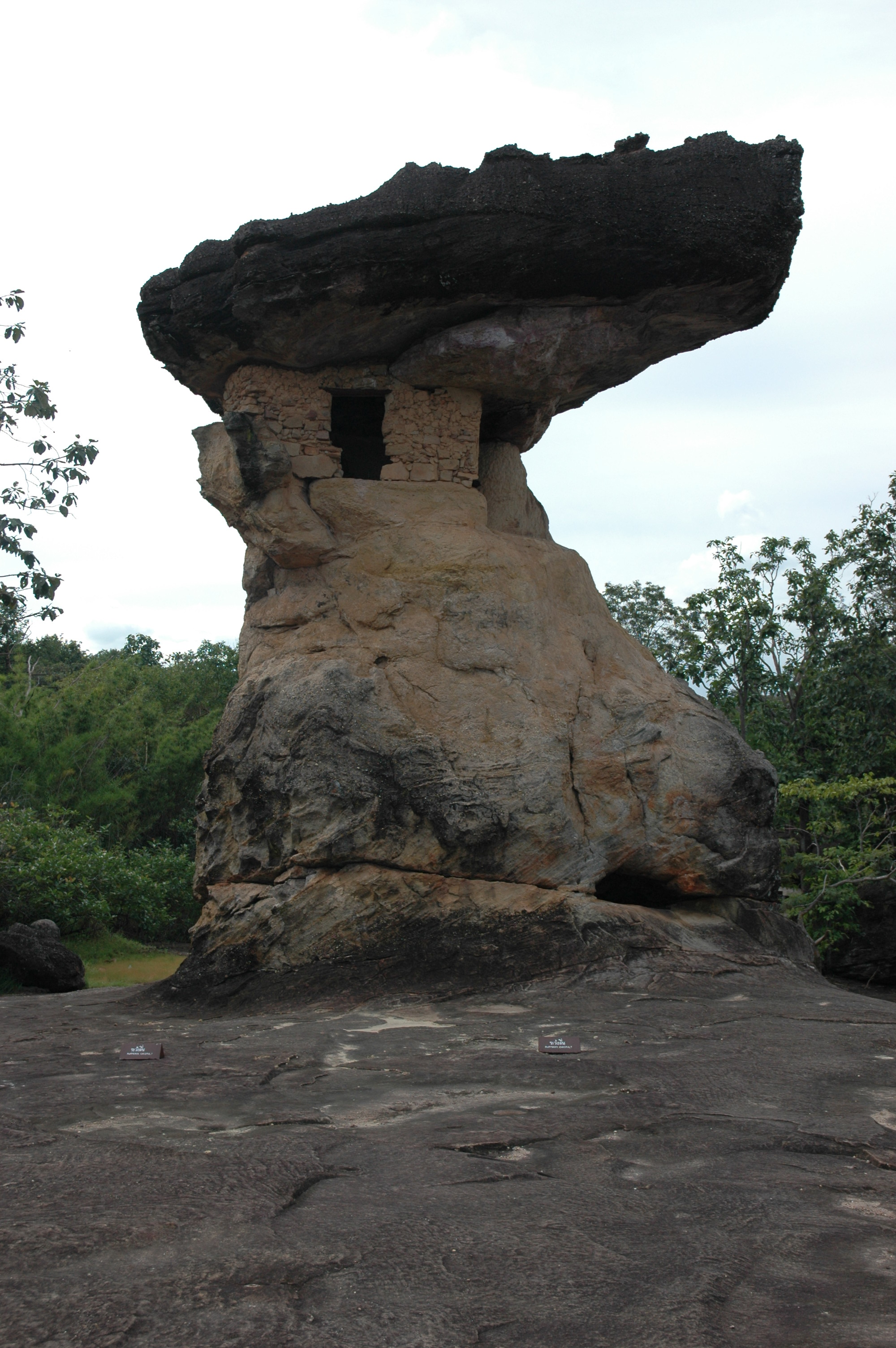 Hoh Nang Ussa, Phu Phrabat Historical Park, Udon Thani, Thailand